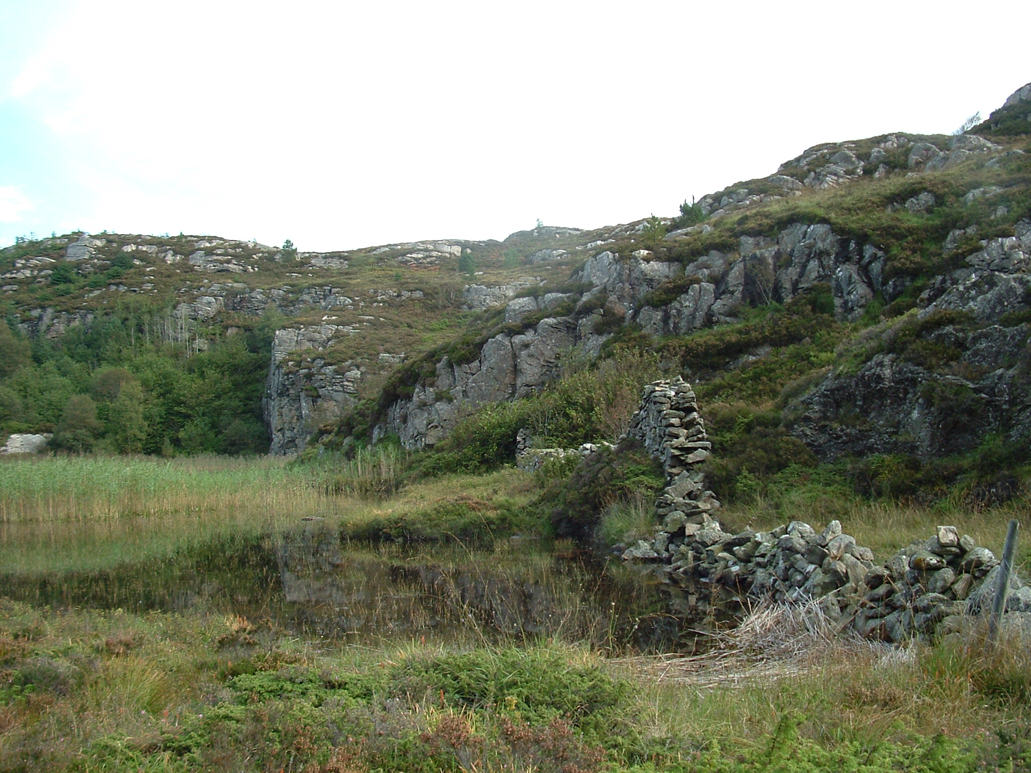 Stonefence, for sheep Western Norway oct06, Own photo